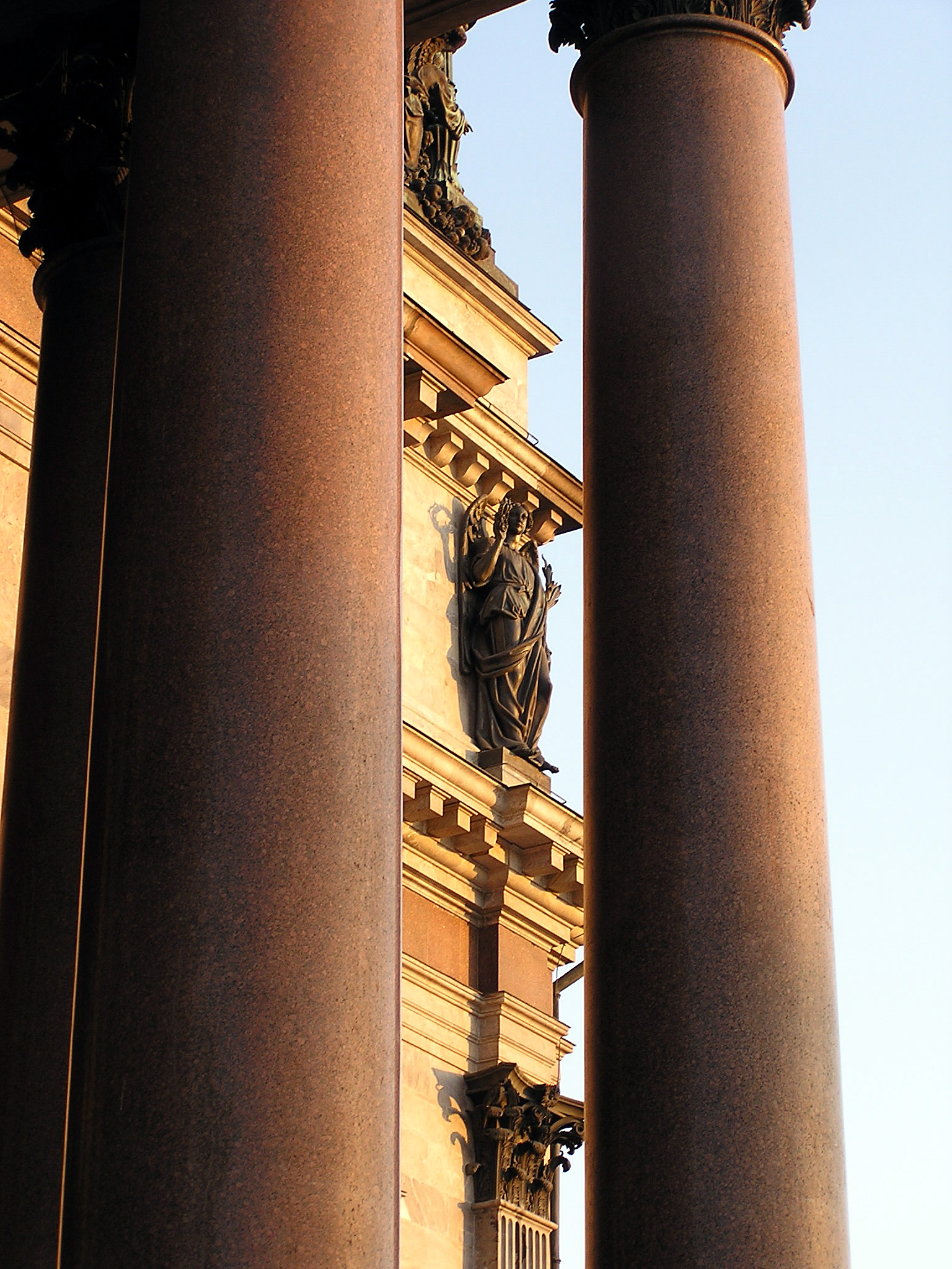 The monolithic columns of Saint Isaac´s Cathedral (Saint Petersburg, Russia) are made from red granite. Photo taken at sunset.